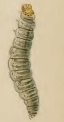 Stainton’s Natural History of the Tineina (1855–1873): Calybites phasianipennella